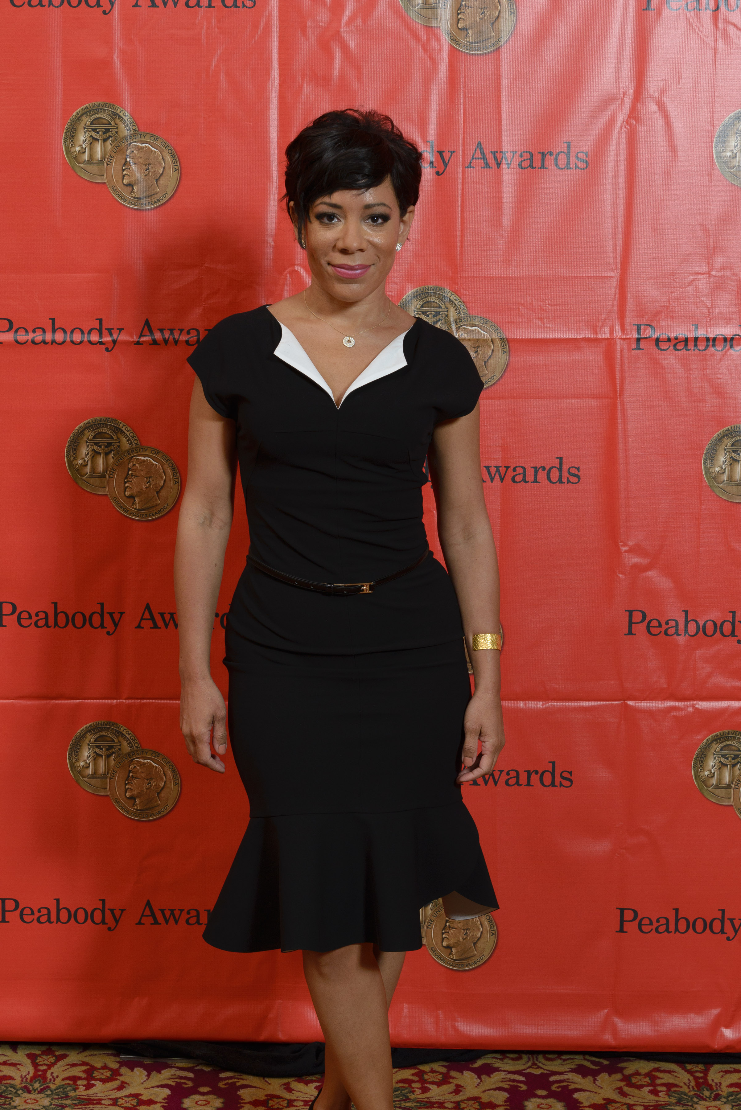 Orange is the New Black cast at the 73rd Annual Peabody Awards.